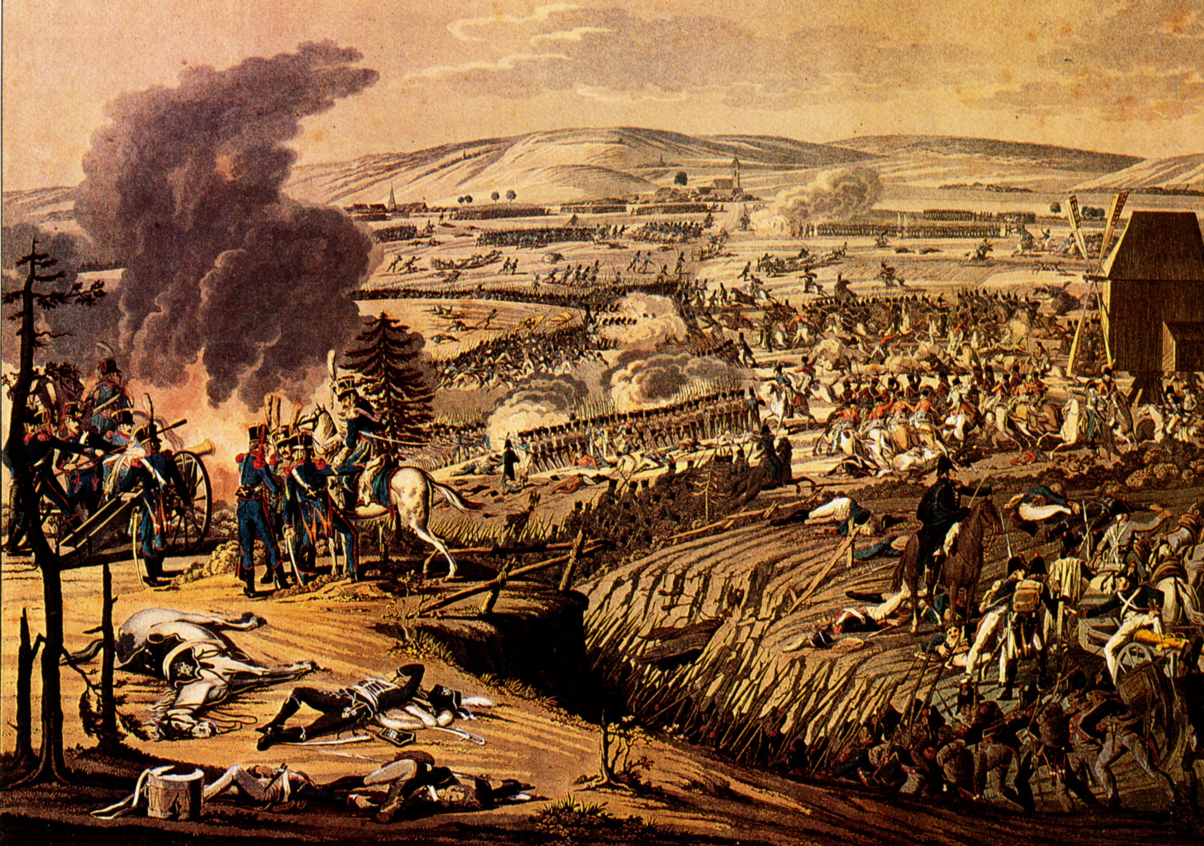 the battle of Jena (Johann Moritz Rugendas)